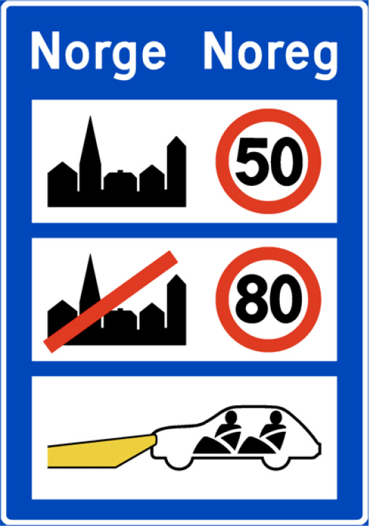 Norwegian road sign 560.1 General speed limits